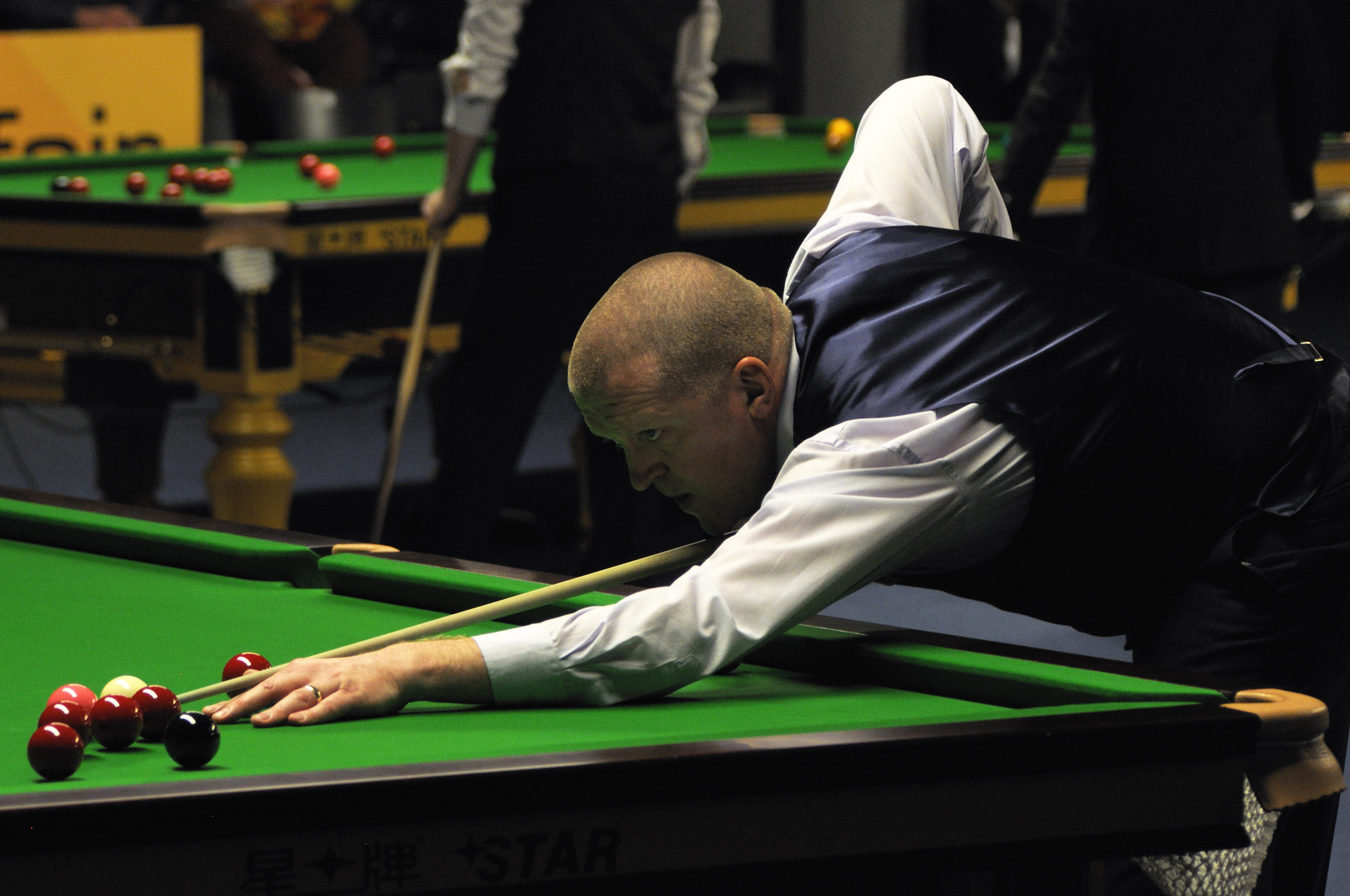 Picture taken in Berlin during the Snooker German Masters in 2013. Dave Harold.